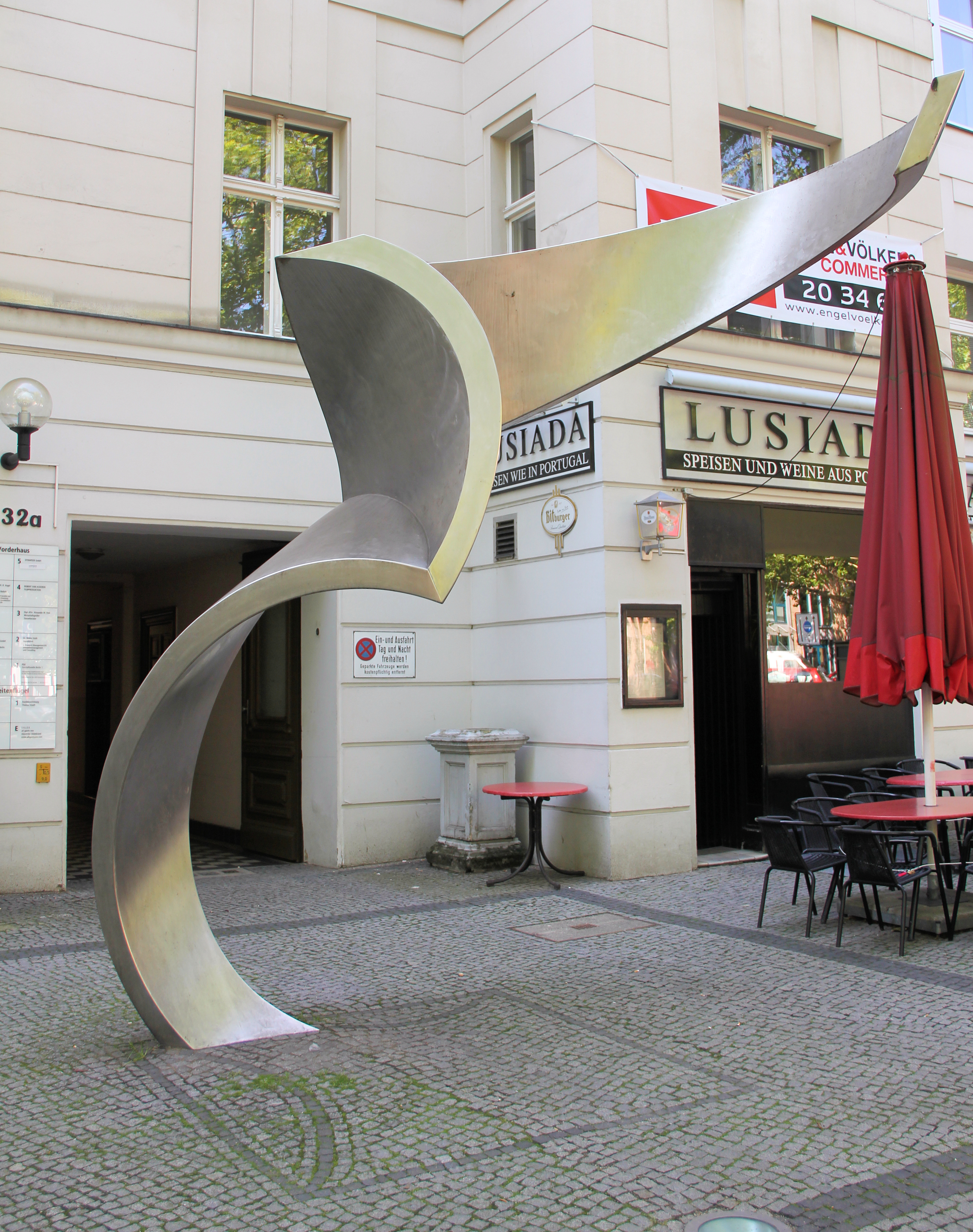 Sculptures, Versus by Karl Menzen 1993, Kurfürstendamm 132a, Berlin-Halensee, Germany